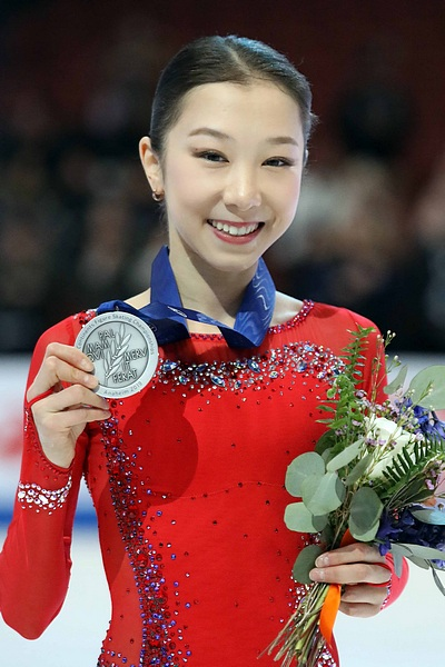 Elizabet Tursynbaeva at the 2019 Four Continents Championships - Awarding ceremony